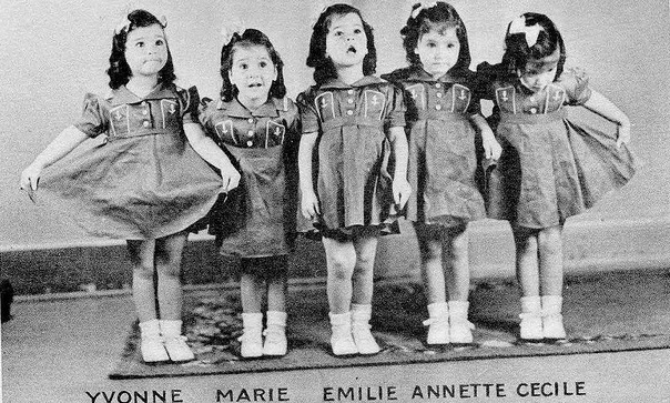 =Dionne quintuplets